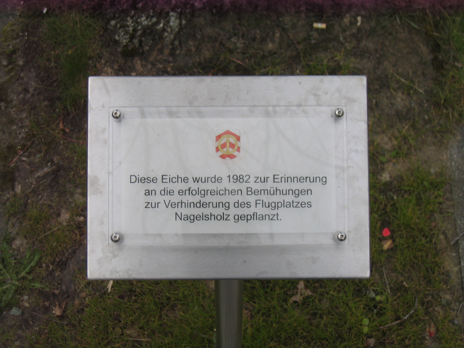 Spenge, District of Herford, North Rhine-Westphalia, Germany.